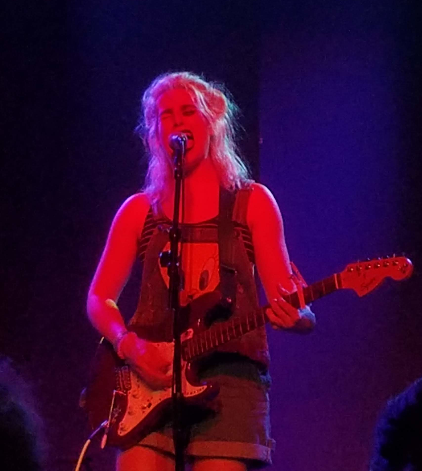 Sir Babygirl performing at Kings in Raleigh, North Carolina on September 30, 2019.